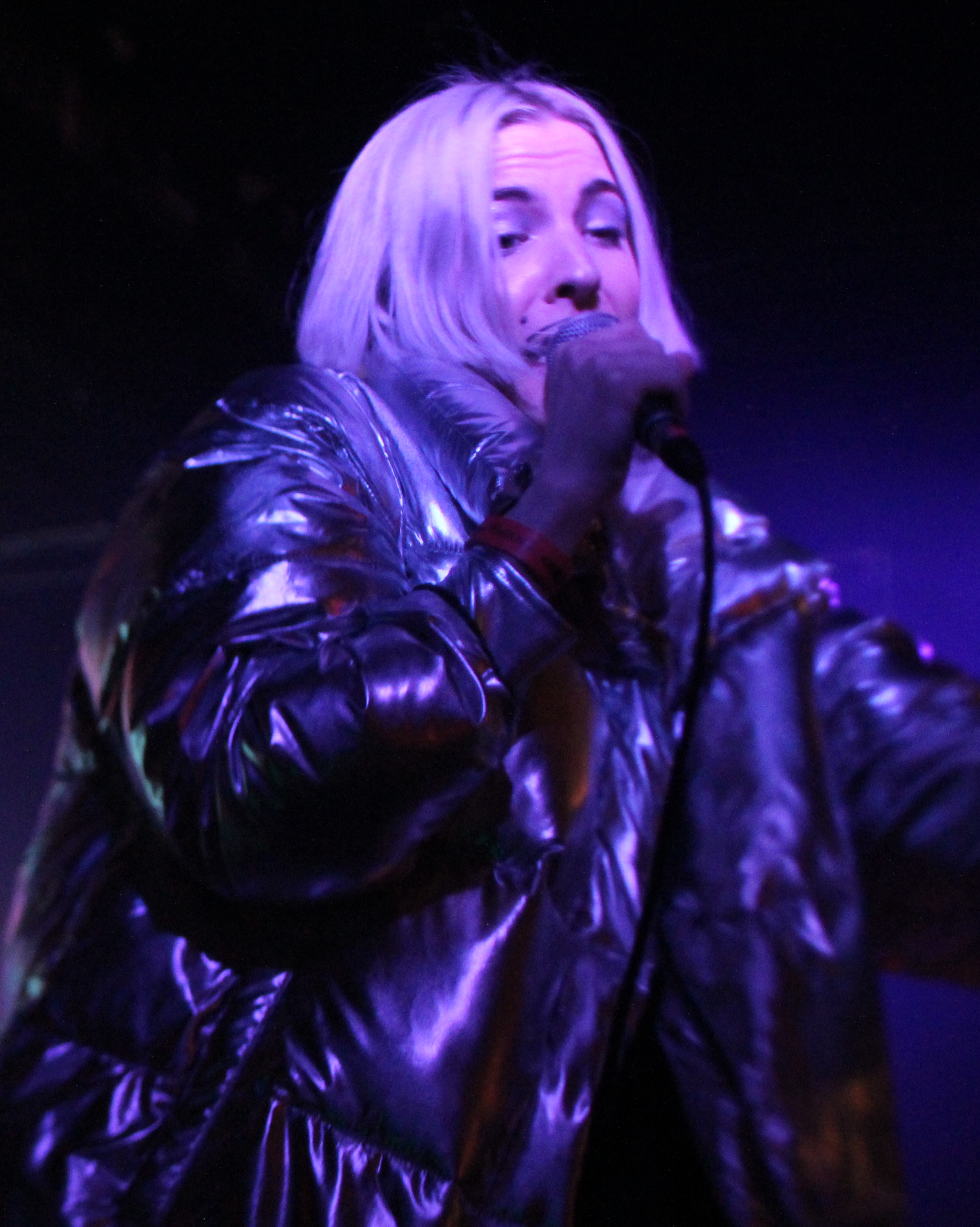 Dorian Electra, Subterranean Chicago, March 7, 2018